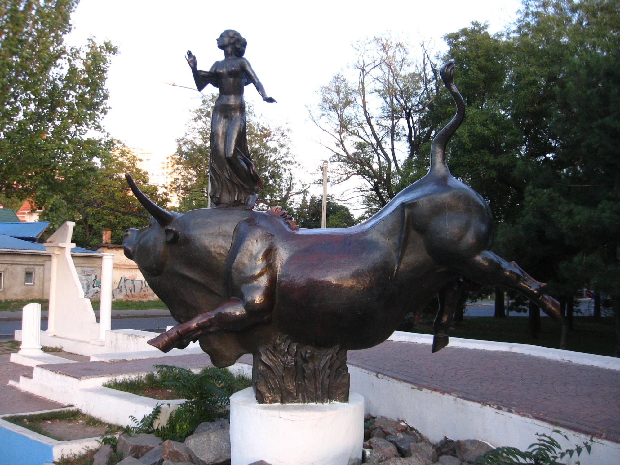 Fountain "Rape of Europa", Odessa, Ukraine